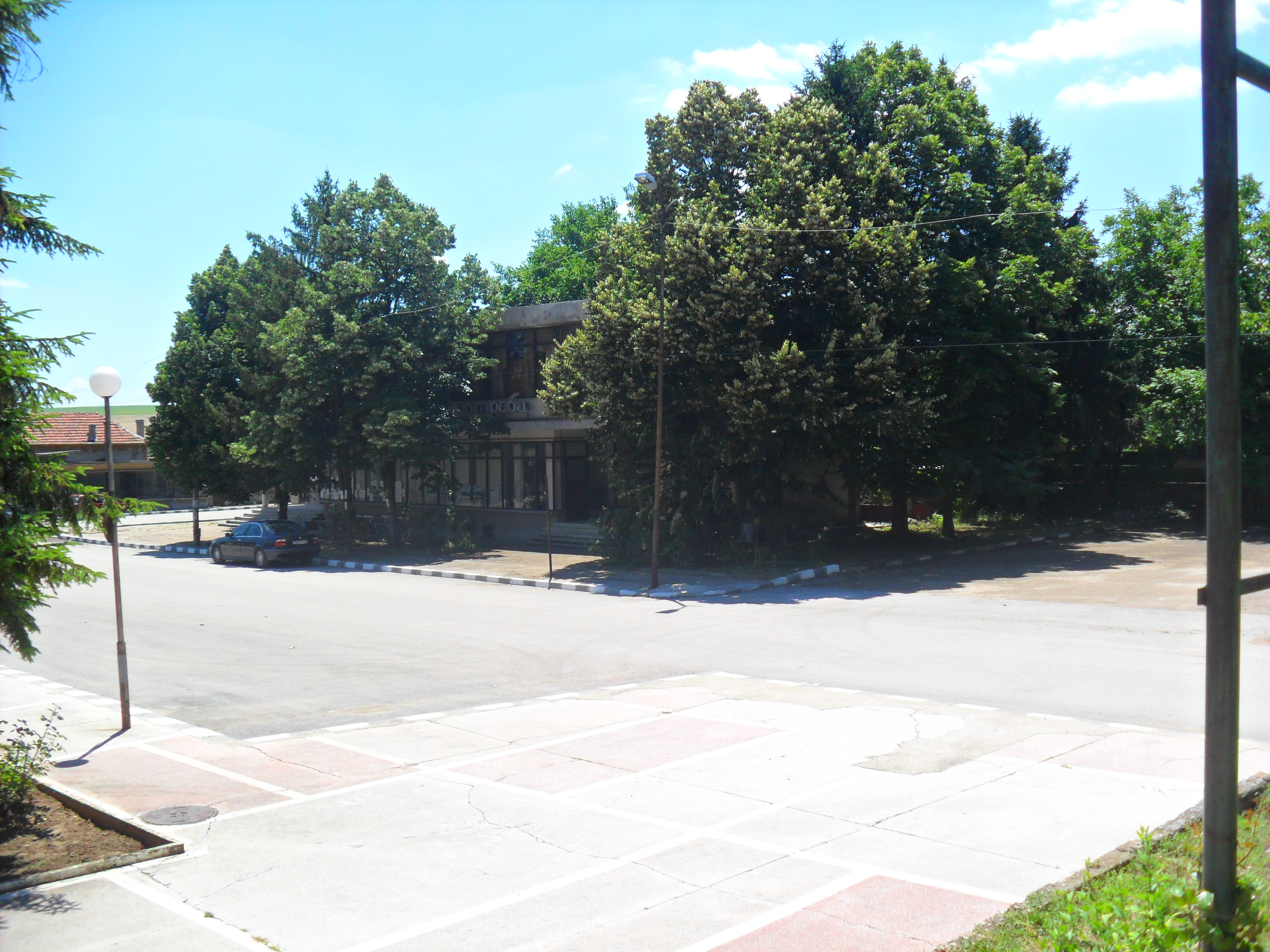 Сградата на ресторанта